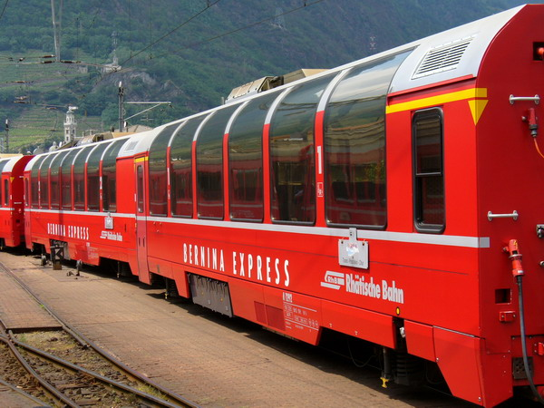 Bernina-Express Panoramawagen in Tirano